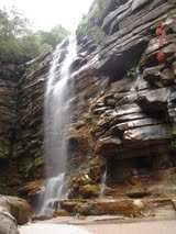 THE WATERFALL OF THE MOSQUITO IS A WONDERFUL PLACE AND CHARMING